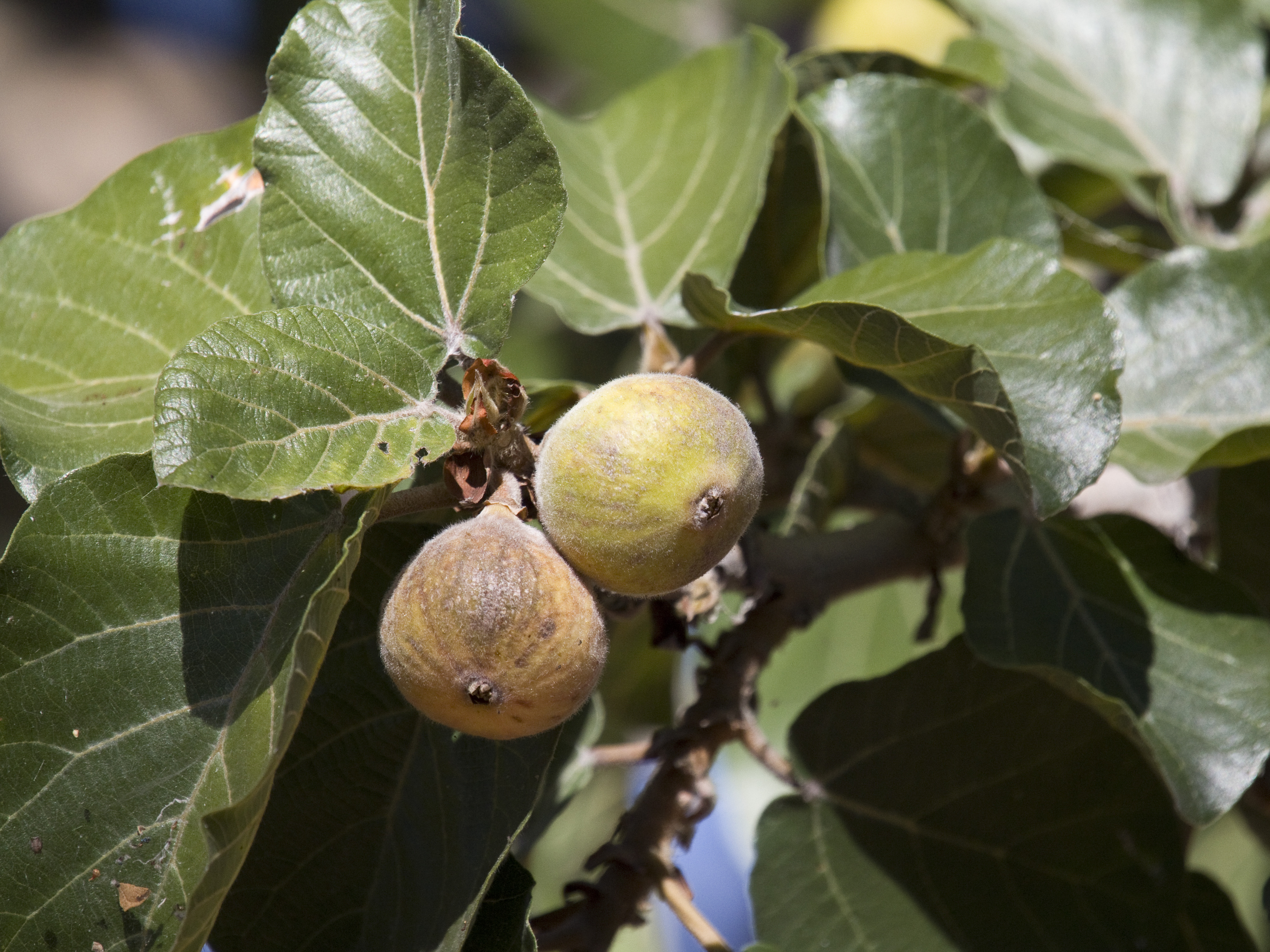 sycamore fig